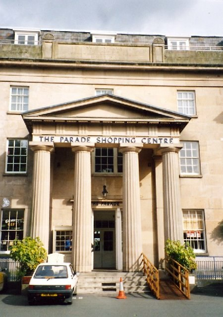 The Parade Shopping Centre, St Mary's Place, Shrewsbury. This was built as the Royal Salop Infirmary in 1826-30. It is ashlar-faced, in Greek Revival style. The grand central entrance has massive paired fluted Doric columns to a pedimented portico with a triglyph frieze. An inscription reads: "Salop Infirmary established 1745. Supported by voluntary subscriptions and donations. Rebuilt 1830. E. Haycock Architect". For a photo of the whole façade see [1]